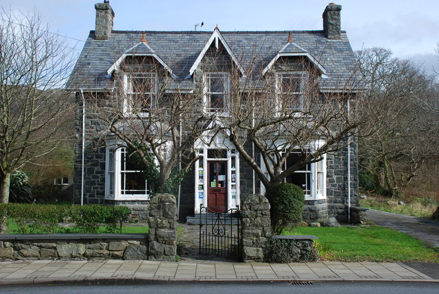 "Gorphwysfa" (later changed to: "Woodlands"), Tremadog, Gwynedd. Birthplace of T E Lawrence (of Arabia) Lawrence was born here on 16 August 1888. He was the second of five illegitimate sons of Sir Thomas Robert Tighe Chapman, Bt., an Anglo-Irish landowner. Lawrence's mother had originally been hired to care for Chapman's four daughters by his ex-wife. The house is now "Snowdon Lodge", a hostel.